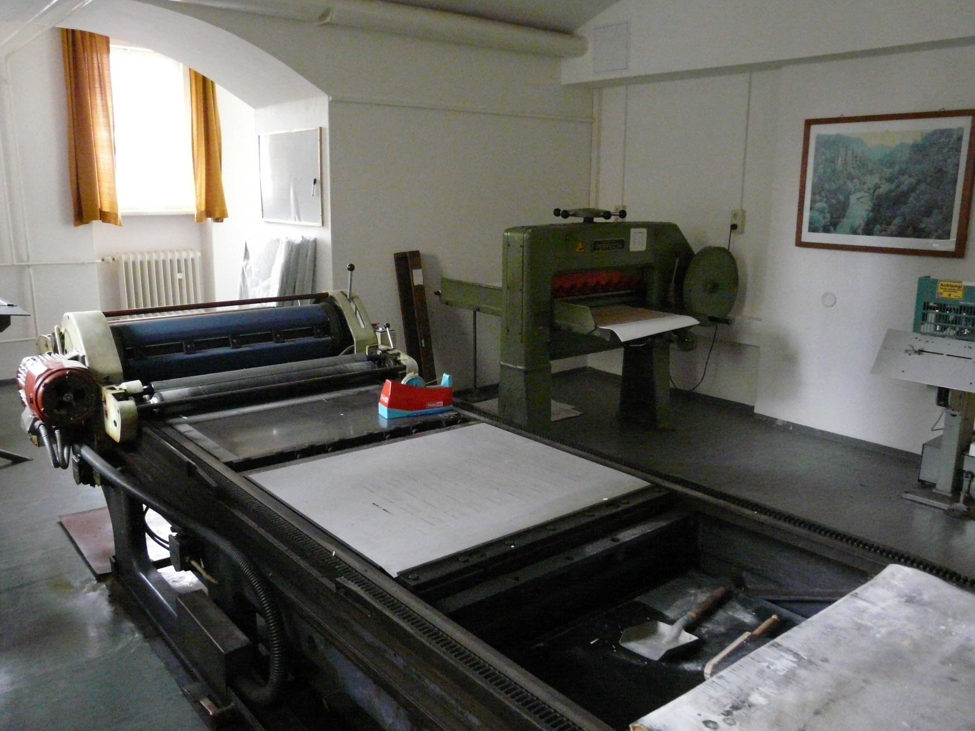 Proofpress and cutter at the Cartographical Technical Facility of the Dresden University of Technology